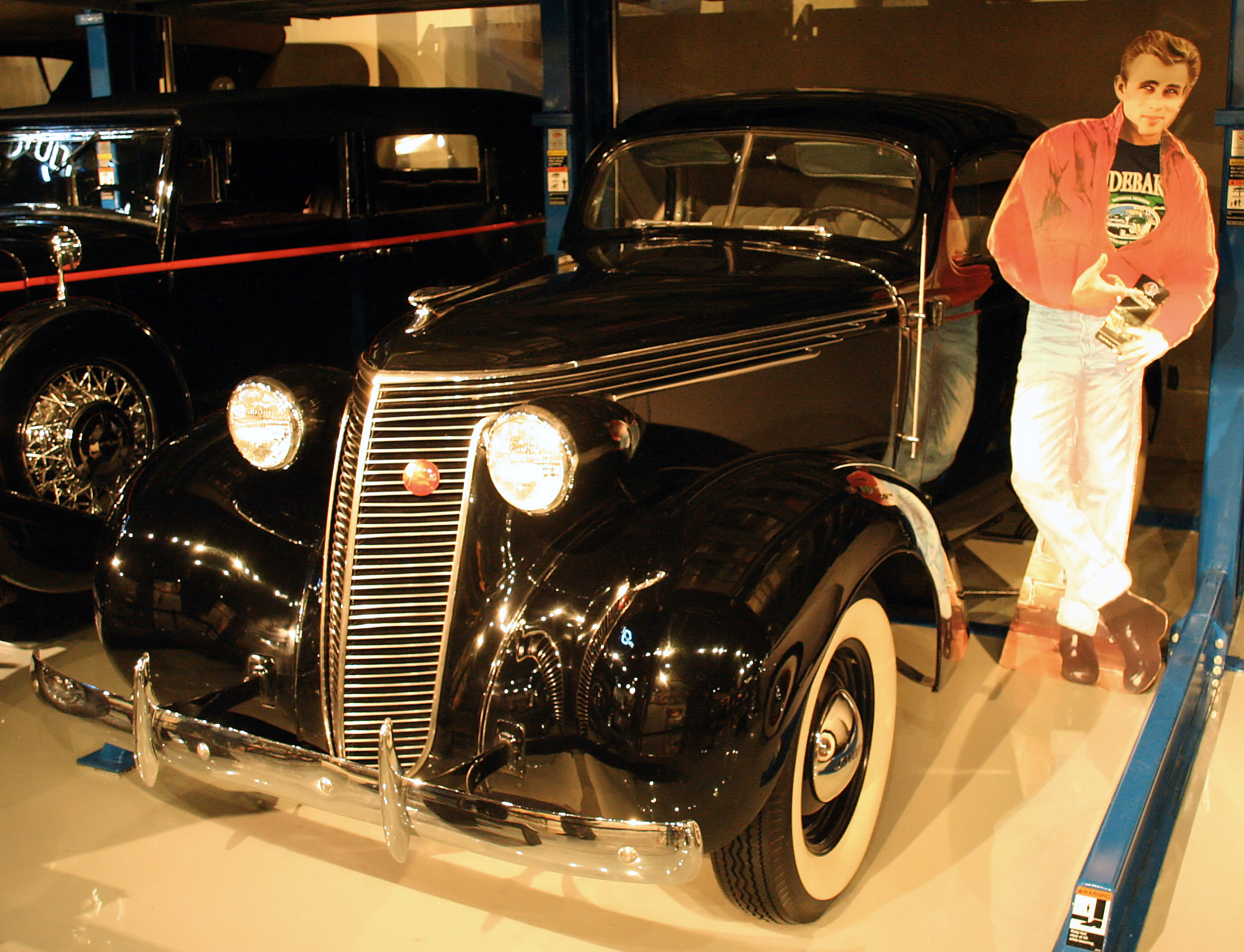 1937 Studebaker Dictator, part of the Studebaker National Museum collection in South Bend, Indiana. Photo shot by Derek Jensen (Tysto), 2006-April-02